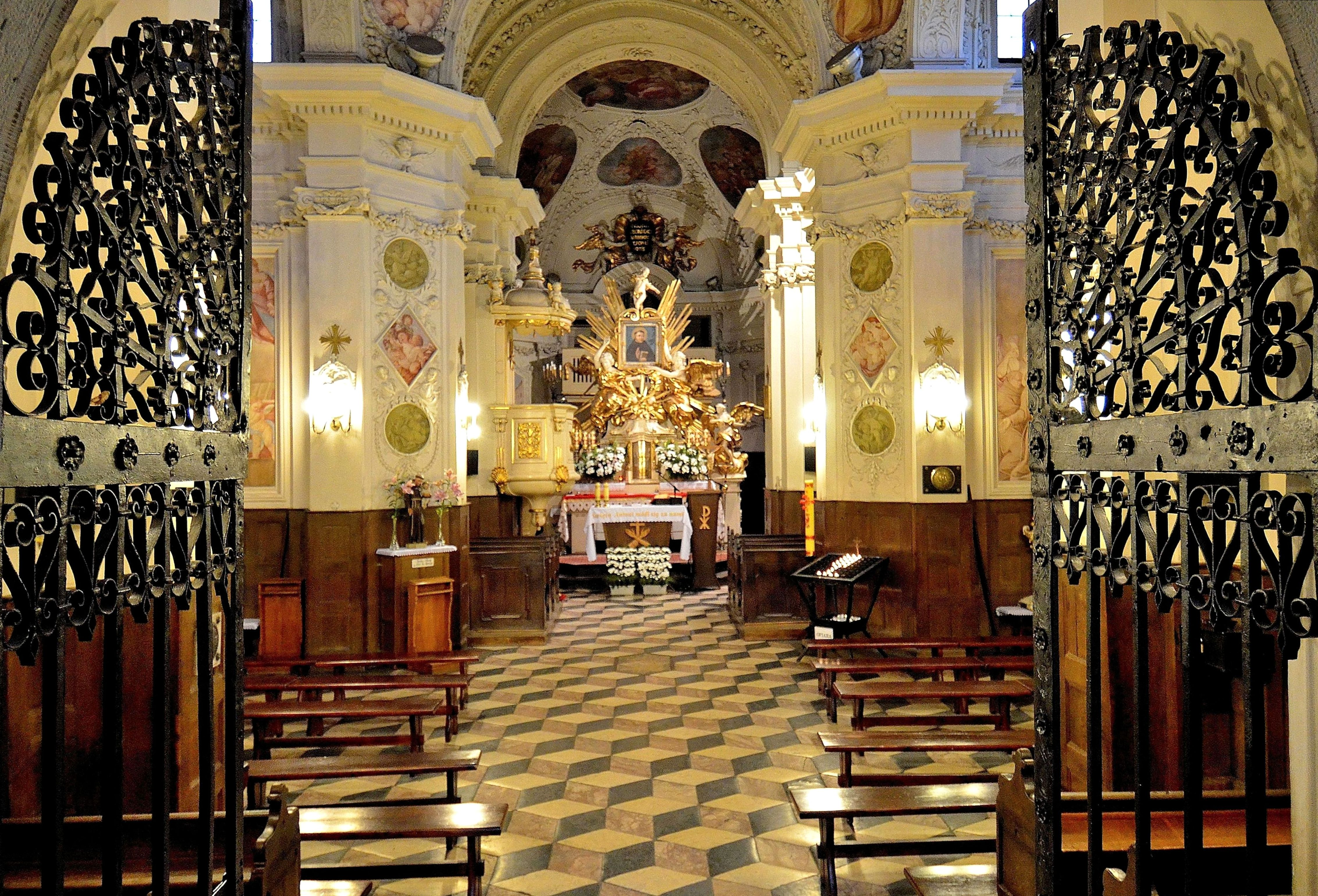 Interior of the Saint Anthony of Padua church in Warsaw-Czerniaków (listed in the Register of Historic Monuments on 1.07.1965, reference no. 60)